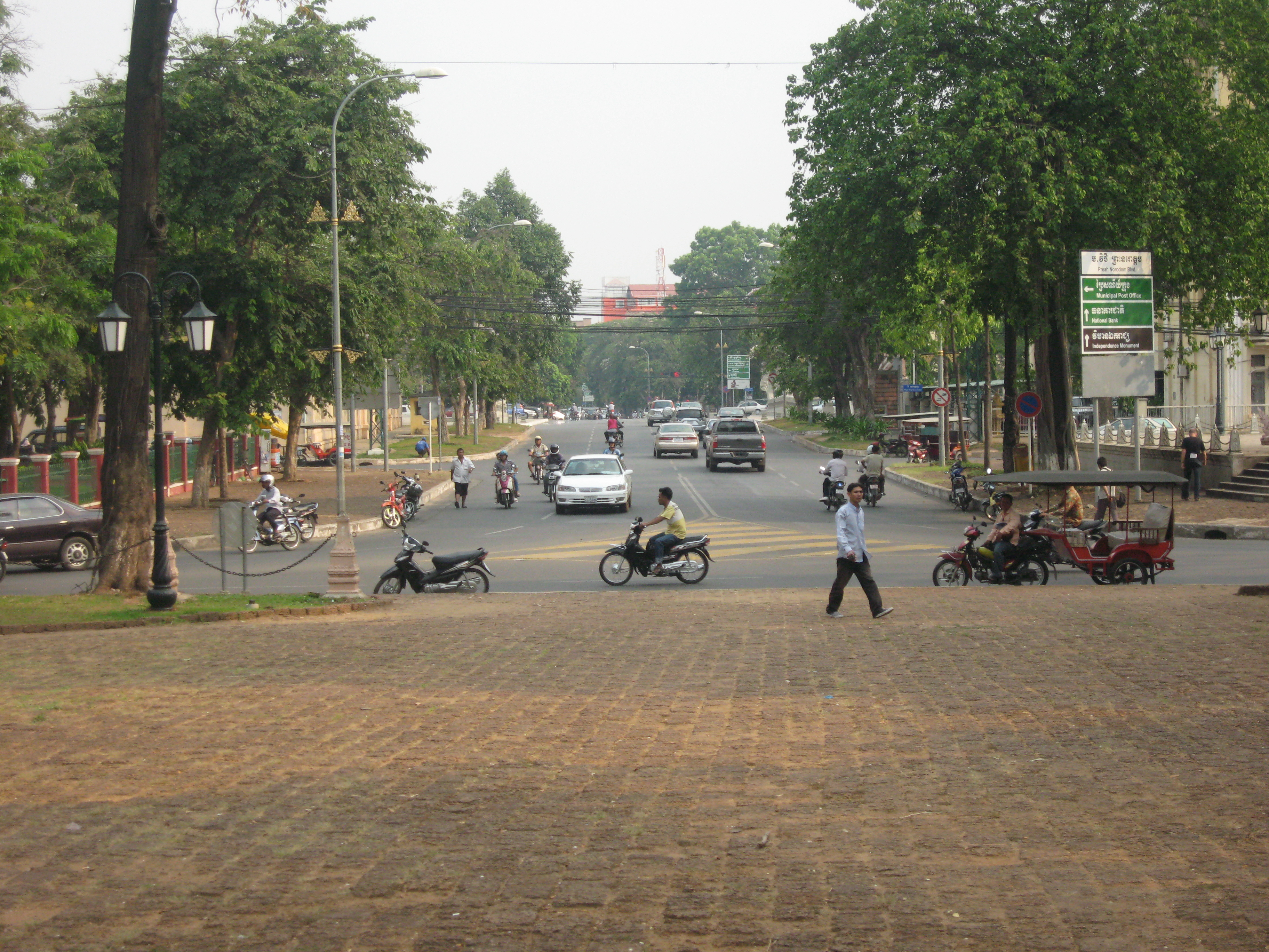 Norodom Boulevard viewed from Wat Phnom ភាសាខ្មែរ: មហាវិថីព្រះនរោត្តមចេញ​ពី​វត្តភ្នំ